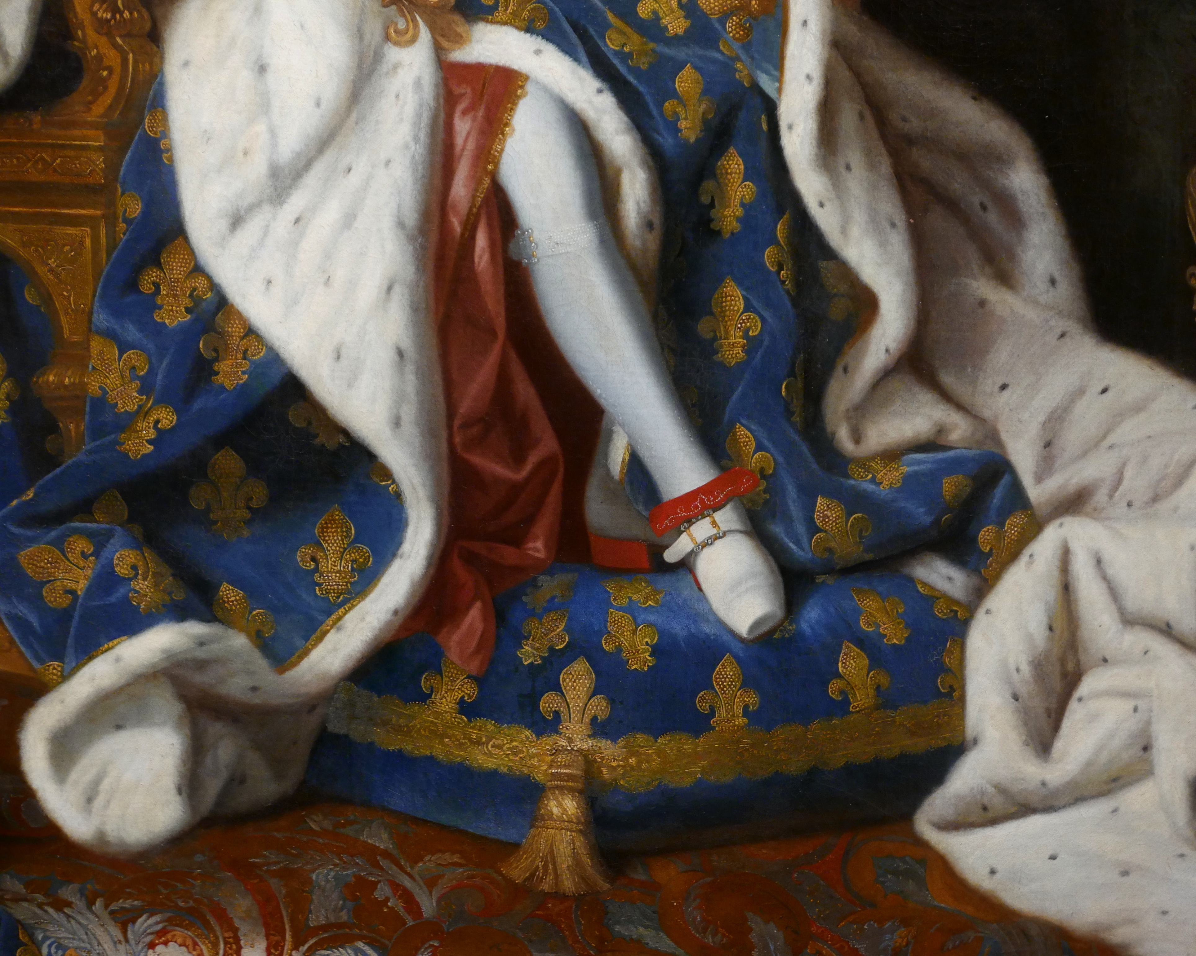 Montpellier (Hérault, Languedoc, Occitanie), Musée Fabre, temporary exhibition, unfortunately interrupted by the covid 19 pandemic, "Jean Ranc, a native of Montpellier at the court of Kings". Portrait of Louis XV around the age of nine in coronation dress.